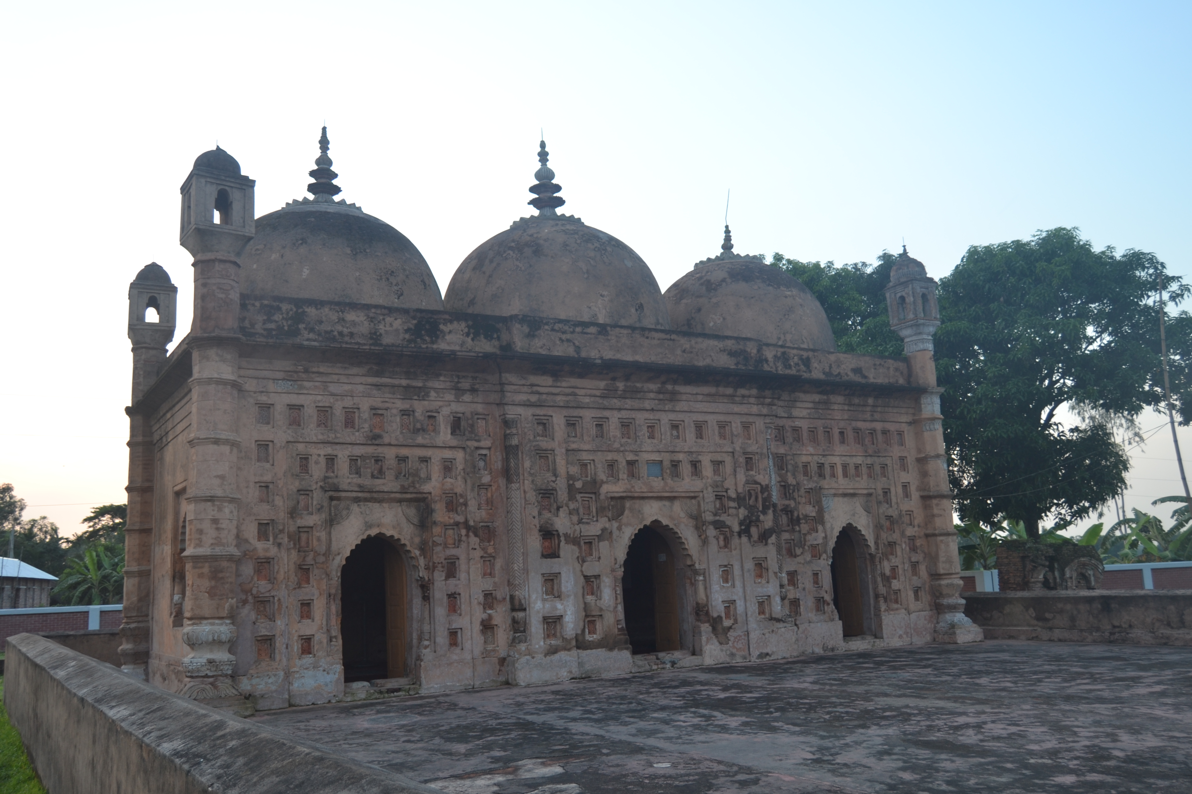 Ancient Mosque (Nayabad), Dinajpur